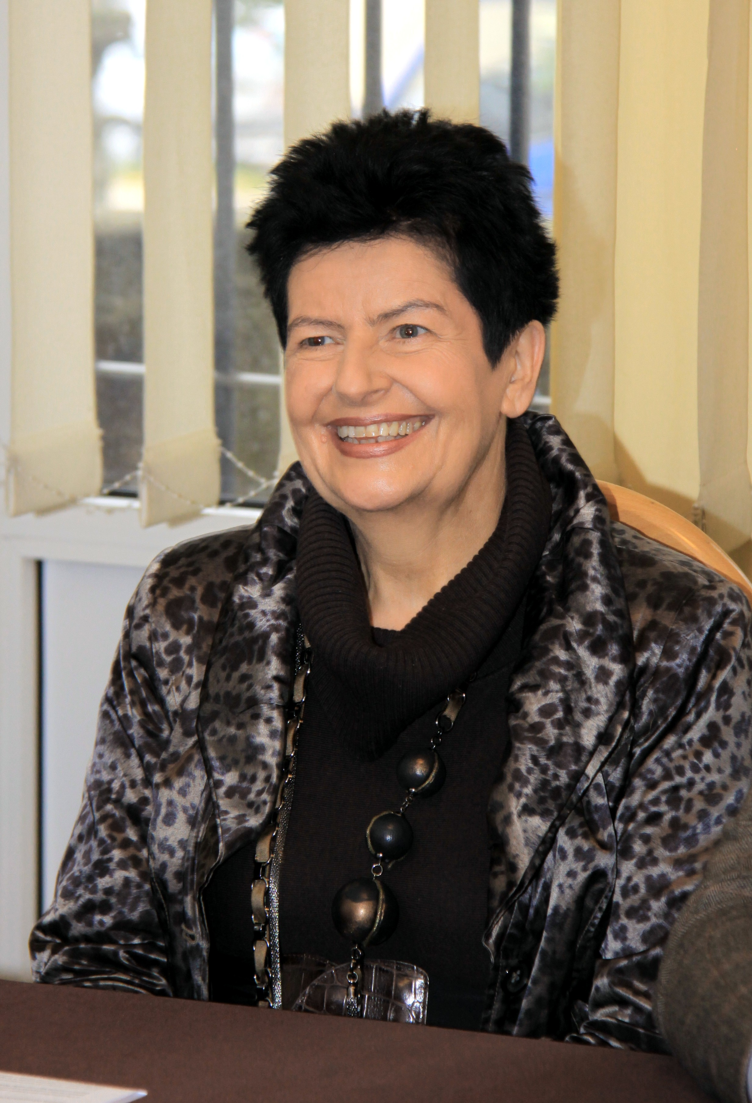 Polish politician, Joanna Senyszyn, meeting in Busko-Zdrój, 25.10.2009.